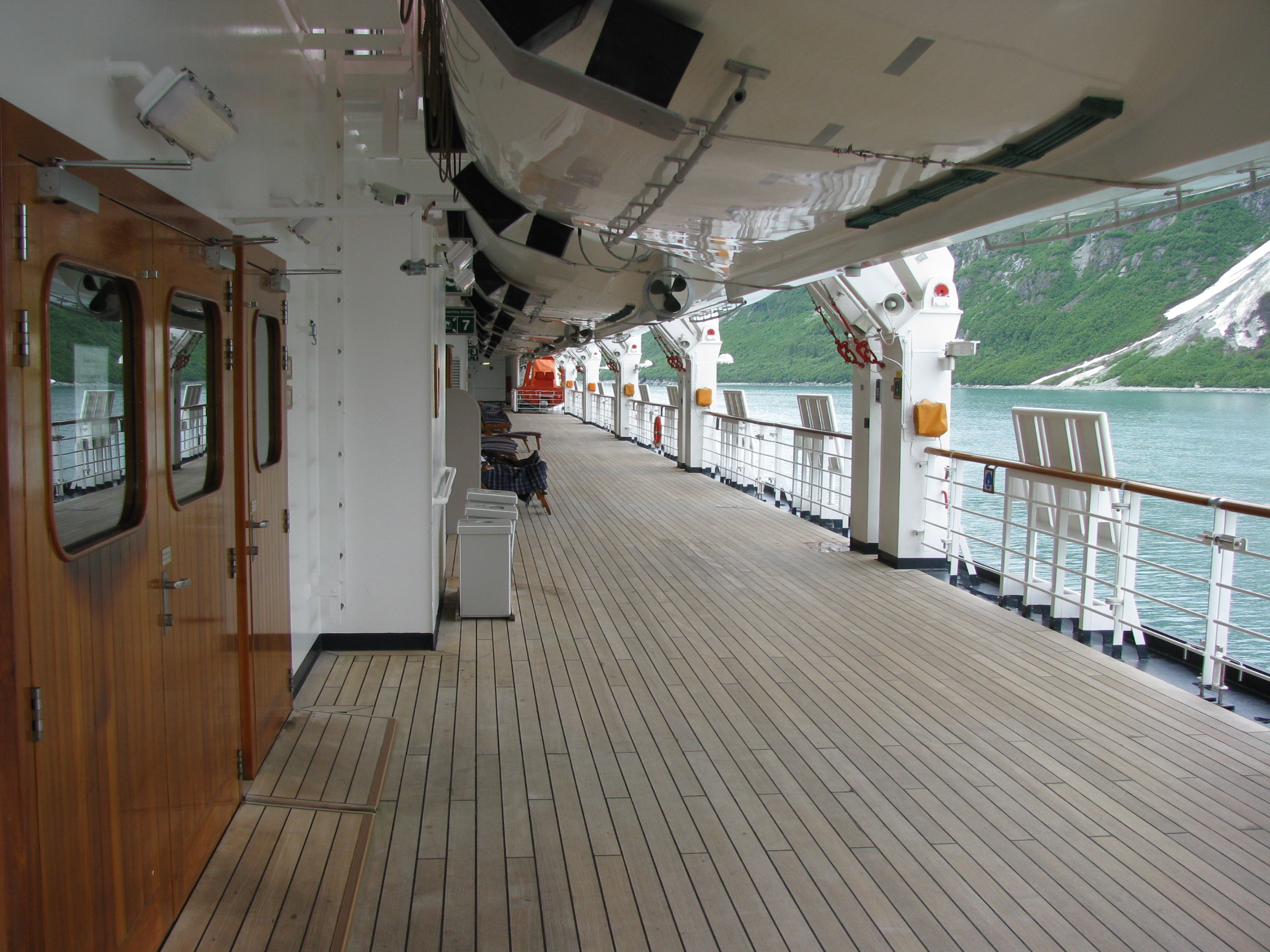 The ms Westerdam, Promenade deck, starboard side